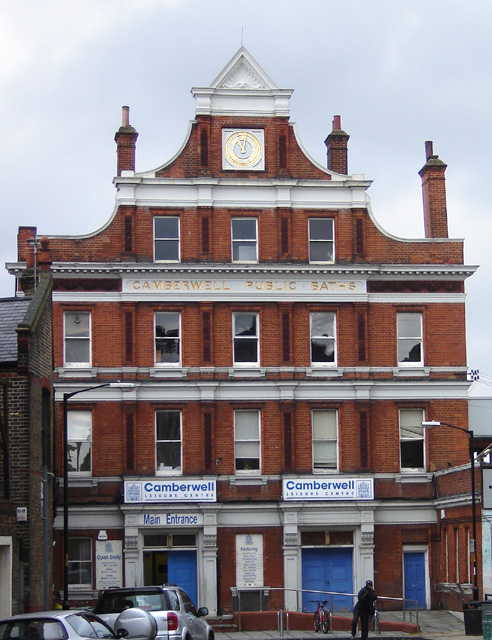 Camberwell Public Baths (now Leisure Centre), Camberwell, Southwark, London. 29 October 2005. Photographer: Fin Fahey